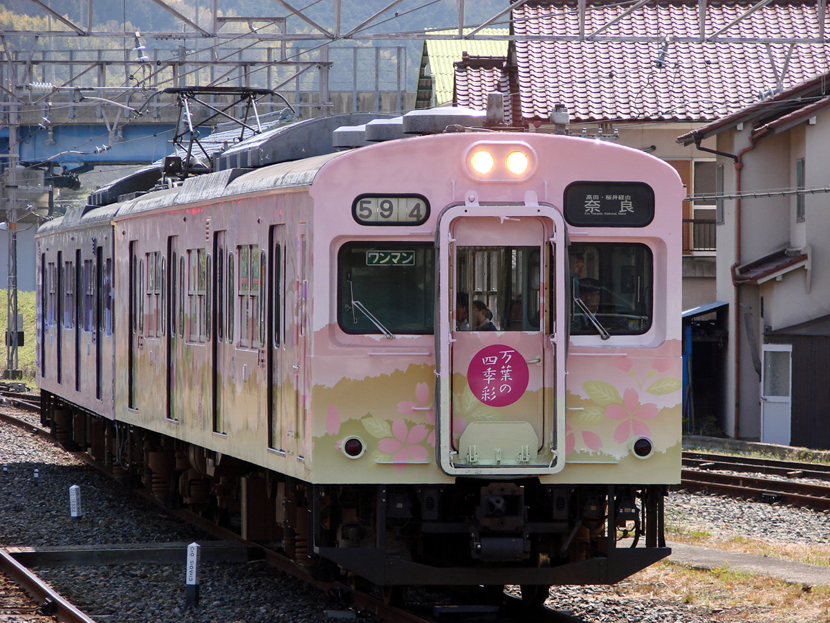 West Japan Railway Series 105 (Man-yō Train 'The seasonal colours of Man-yō')